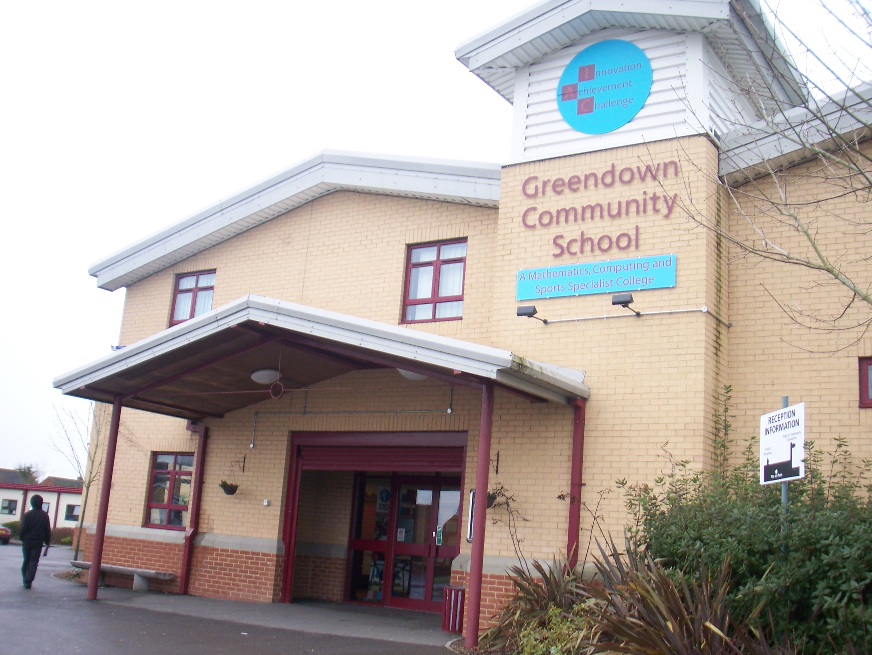 Greendown Community School This is the main reception of Greendown Community School, Great Britain.